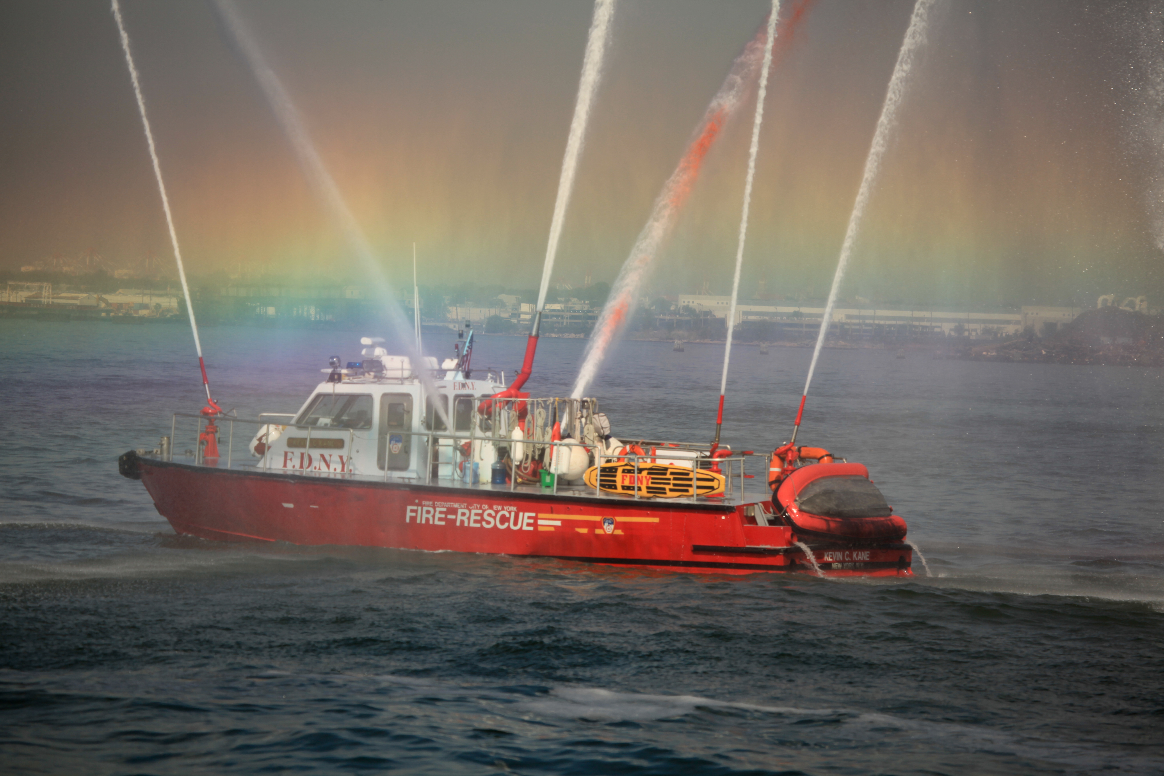 FDNY_fireboat_Kevin_C._Kane_helps celebrate Fleet Week. Original caption: "Navy and Coast Guard ships arrived in New York marking the beginning of Fleet Week New York 2010, May 26, 2010. More than 3,000 Marines, Sailors and Coast Guardsmen will be participating in community outreach events and equipment demonstrations May 26 - June 2. This is the 26th year New York has hosted the sea services for Fleet Week." Marine Corps Public Affairs Office New York Photo by Sgt. Randall Clinton Date: 05.26.2010 Location: New York, US Related Photos: VIRIN: 100526-M-4003C-125